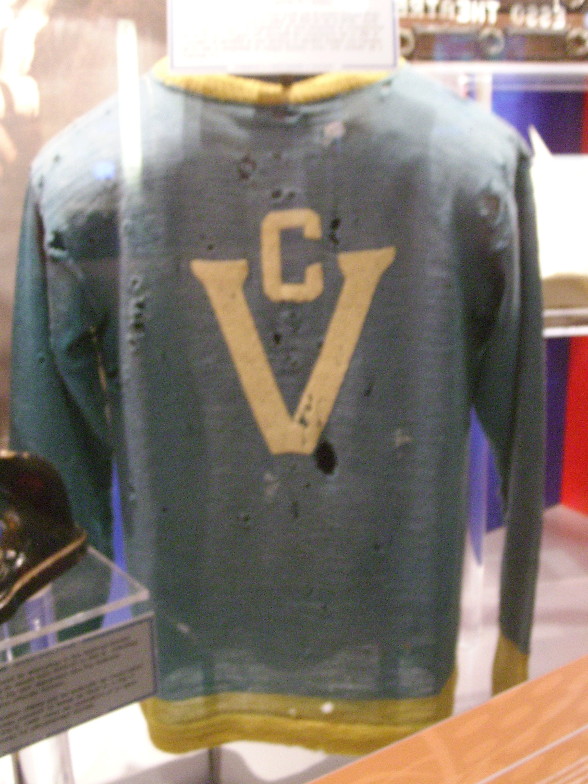 Jersey worn by Victoria Cougars in 1925 season.